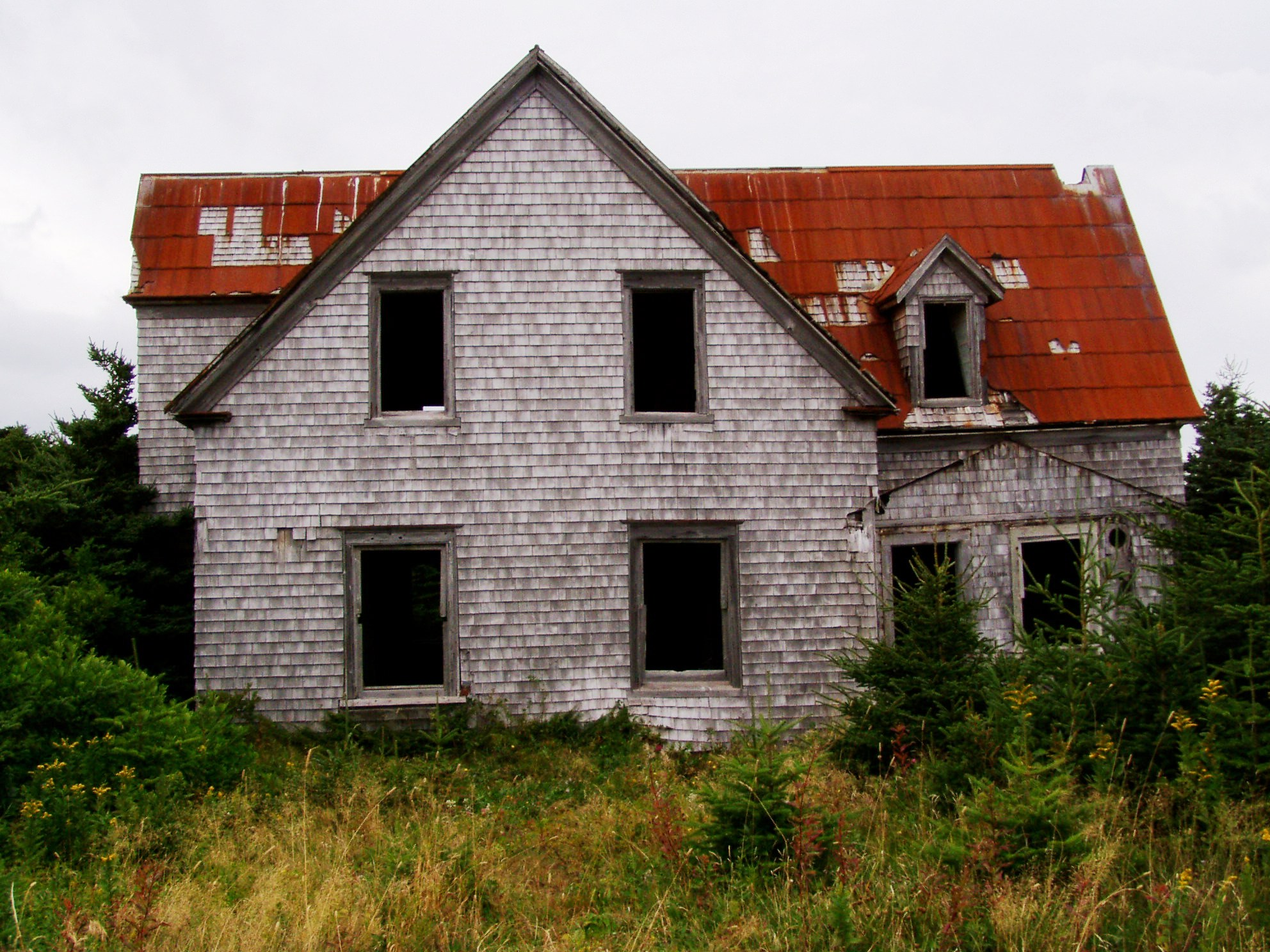 Description: Old Dingwell family house Location: Brion Island, Magdalen Islands, Québec, Canada Date: 2006-08-28 Source: picture taken by Danielle Langlois